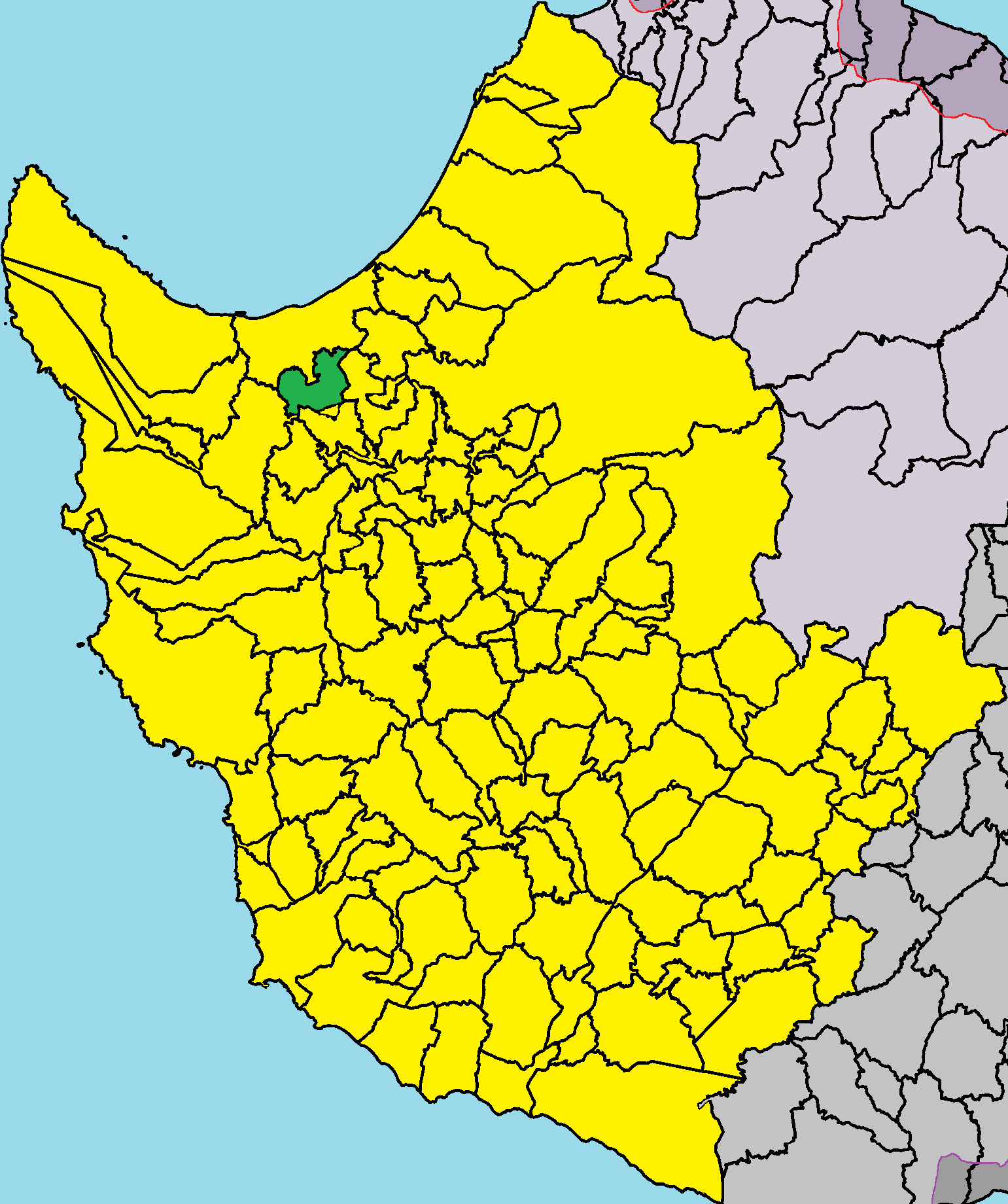 Chrysochou in Paphos District.